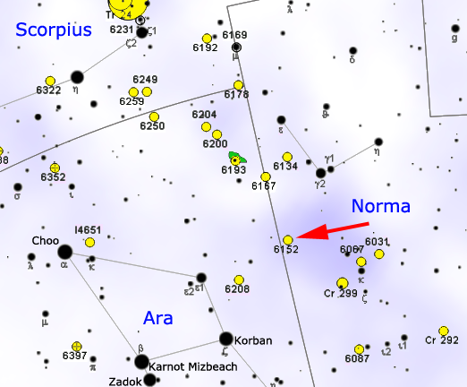 Map of NGC 6152